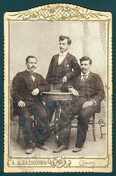 IMARO`s Efrem Chuchkov, Kliment Shapkarev and Gotse Delchev